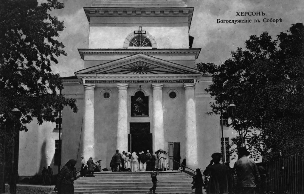 Liturgy in Herson Cathedral. Pre-1917 photo